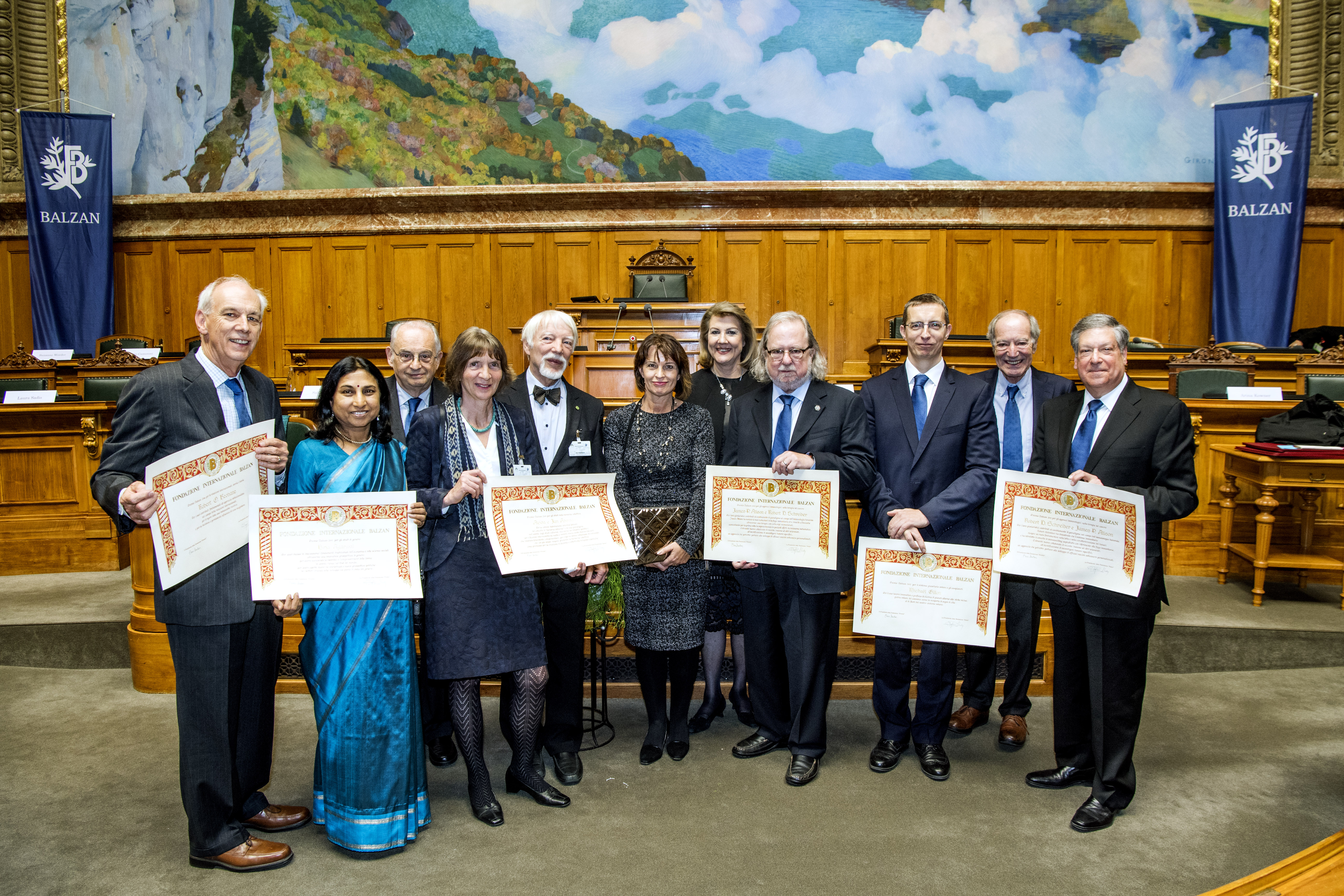 Balzan Prize Awards Ceremony, Bern - Switzerland 17/11/2017